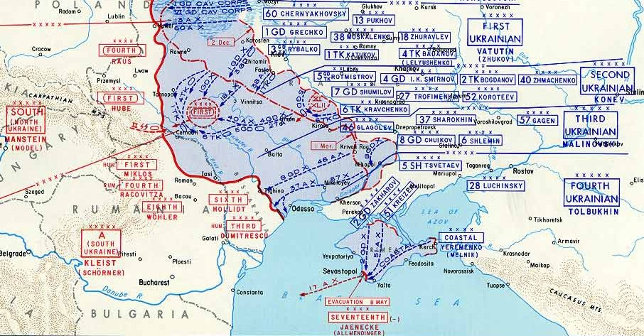 Ukranian front, WWII, pocket of Kamets-Podolsk.